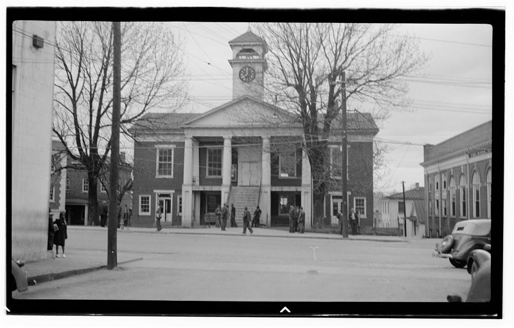 Photographic view of the Pittsylvania County courthouse, State Route 57 & U. S. Route 29, Chatham, Pittsylvania County, Virginia. Historic American Buildings Survey, Library of Congress, Washington, D.C.